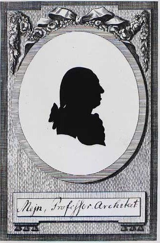 Peter Meyn (1749-1808), Danish architect